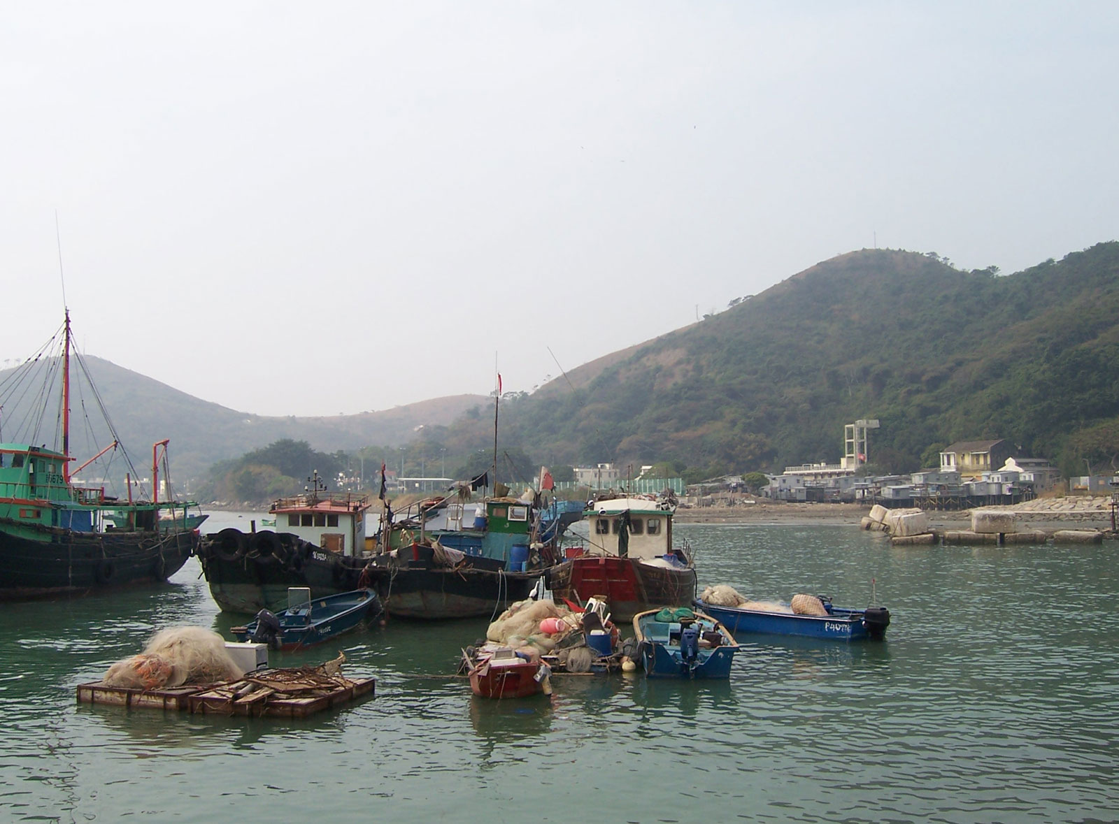 Fishing boats at Tai O. Taken by Enoch Lau on 31 December 2005. As a courtesy, please let me know if you alter this image or this image description page. Original filename was 100_1003.JPG.